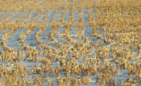 A field of harvested corn near Sherwood, Wisconsin, United States with some snow cover. See Stover.